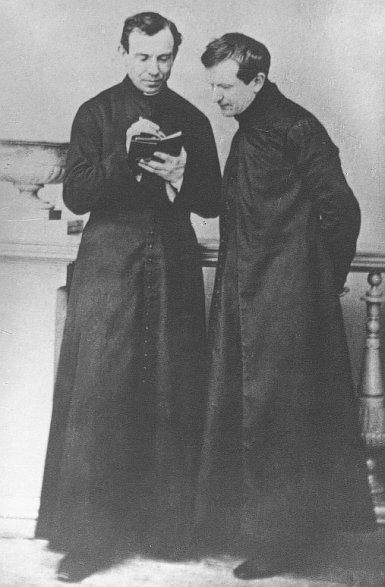 Zygmunt Szczęsny Feliński